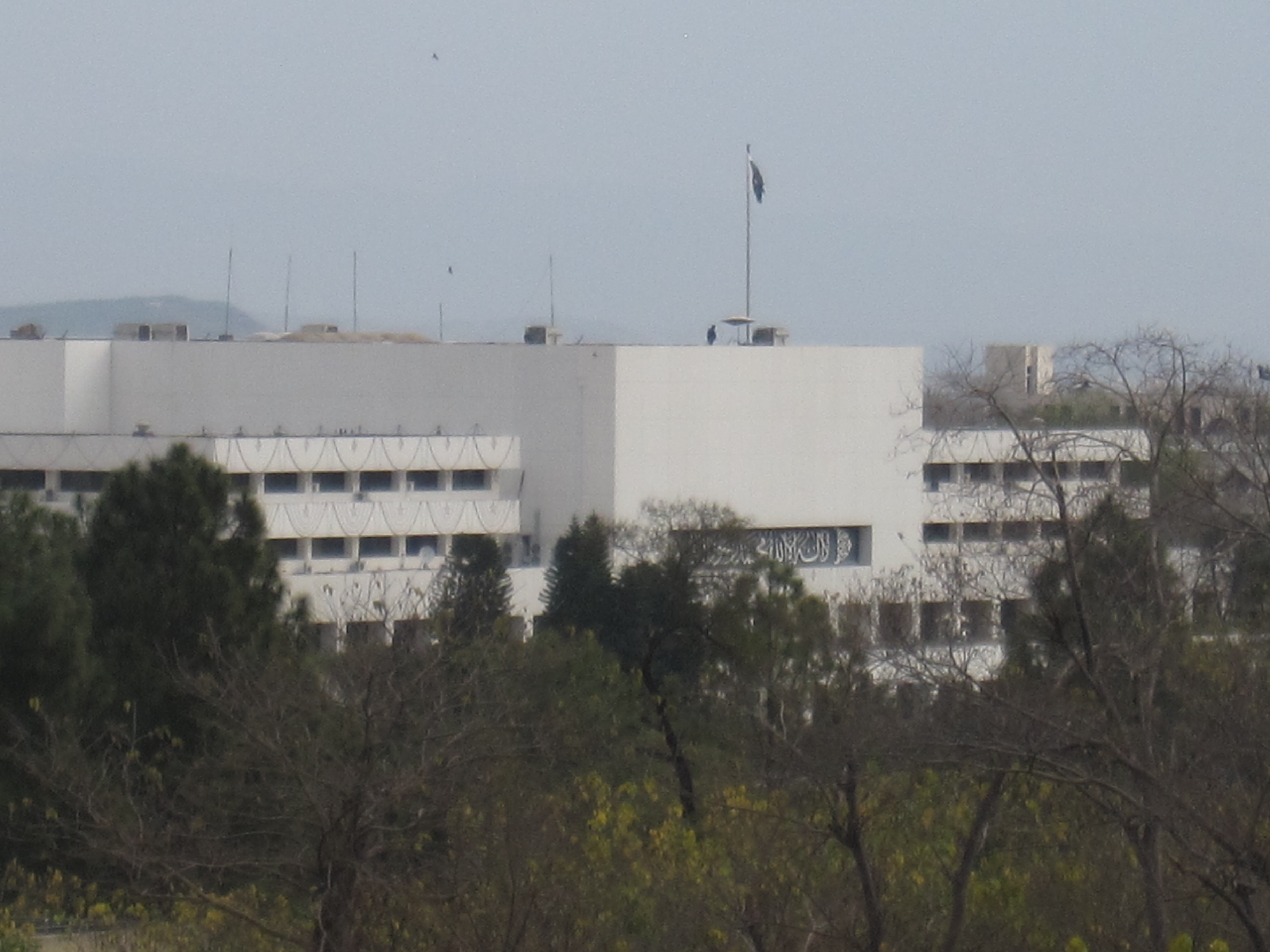 Parliament House from near by govt flats This is a photo of a monument in Pakistan identified as the ICT-8